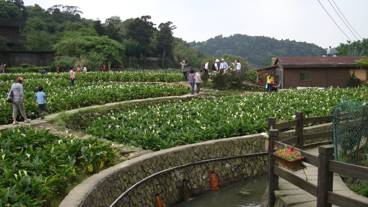 Tourists in the calla lilies （Jhuzihhu）